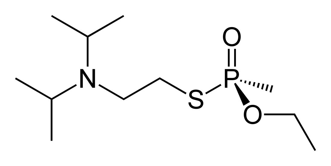 Skeletal formula of the (S) enantiomer of VX. Systematic name generated in ChemDraw: (S)-S-2-(diisopropylamino)ethyl O-ethyl methylphosphonothioate. Cf. John H, Balszuweit F, Kehe K, Worek F & Thiermann H (2015) "Toxicokinetic Aspects of Nerve Agents and Vesicants" in Gupta, Ramesh C. , ed. Handbook of Toxicology of Chemical Warfare Agents (2nd ed.), Cambridge, MA: Academic Press, pp. 817-856, esp. 823 [Fig.56.1] ISBN: 0128004940.